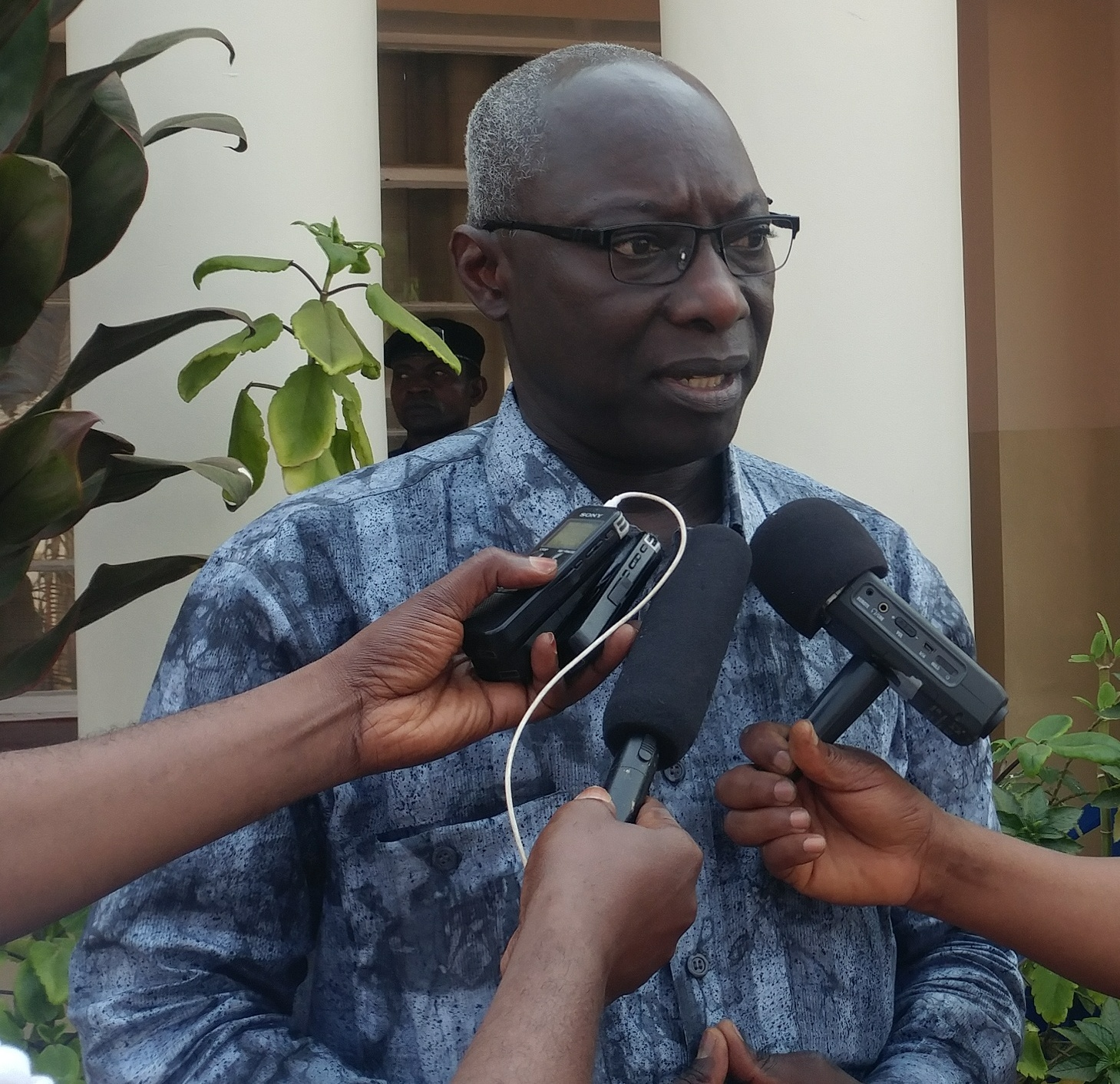 Tshikapa, Kasai, Democratic Republic of the Congo: UN Secretary General's Special Advisor on the prevention of Genocide, Adama Dieng speaking to the press in Tshikapa, Kasai-Occidental, after meeting the provincial governor, Civil Society and victims; Dieng has called for an end to violence in the Grand Kasaï and believes peace will come from the Congolese themselves.